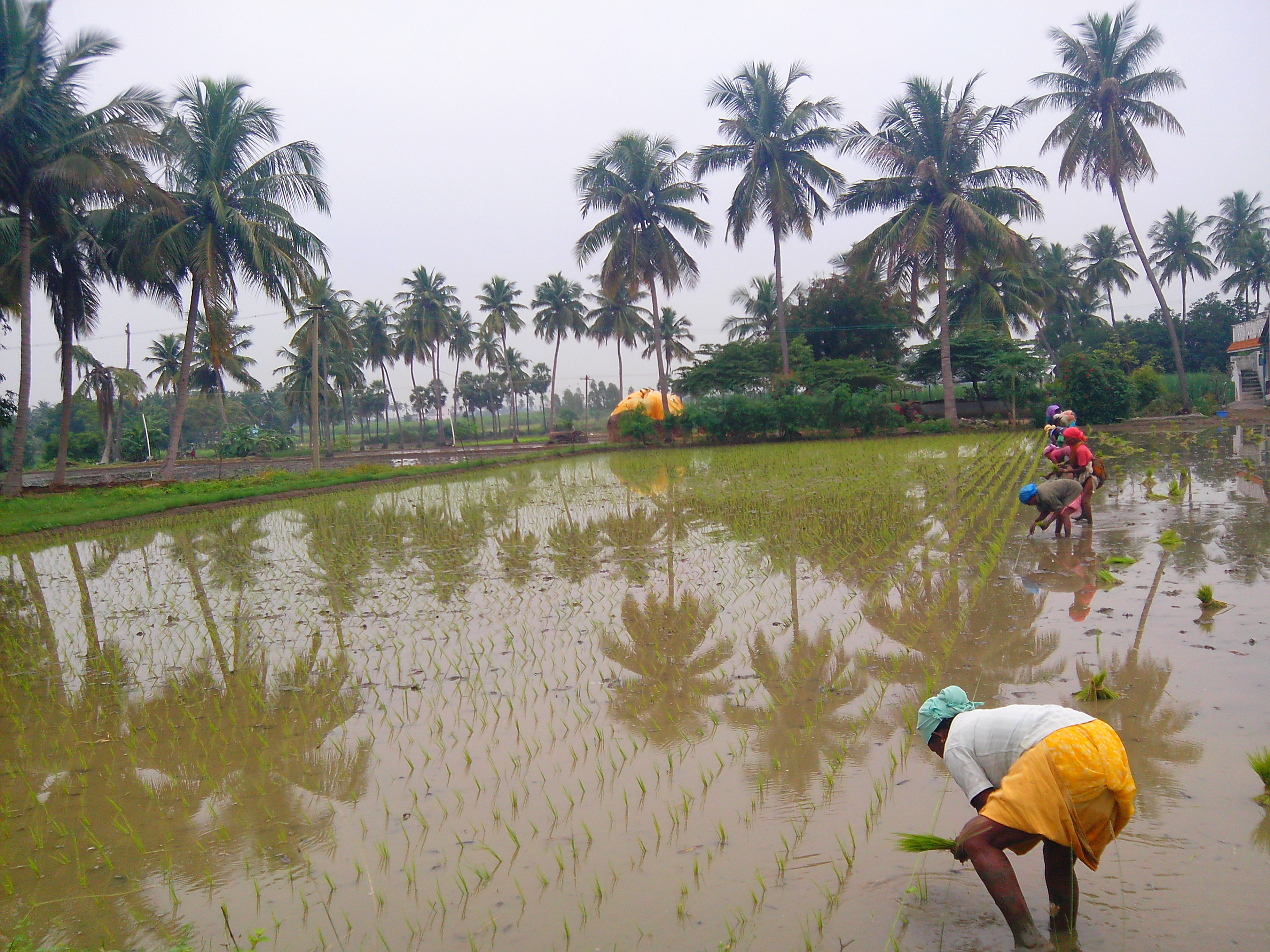 one of the paddy transplantation method. Place: Kachirapalayam, Villupuram District, Tamil Nadu, India.